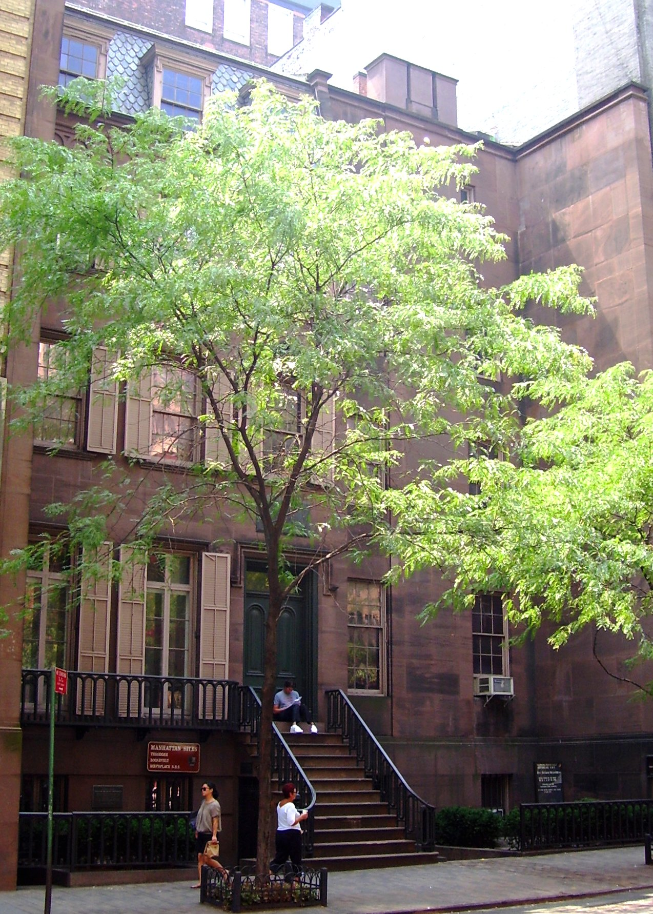 Theodore Roosevelt's Birthplace, a National Historic Site, at 29 East 20th Street, between Broadway and Park Avenue, in Manhattan, New York City. The original building, built in 1848, was demolished in 1916, and rebuilt in 1923 as a replica of the house's state in 1865. Roosevelt was born here in 1858 and the family lived here until 1872, when they moved uptown.